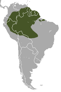 Greater Long-nosed Armadillo (Dasypus kappleri) range